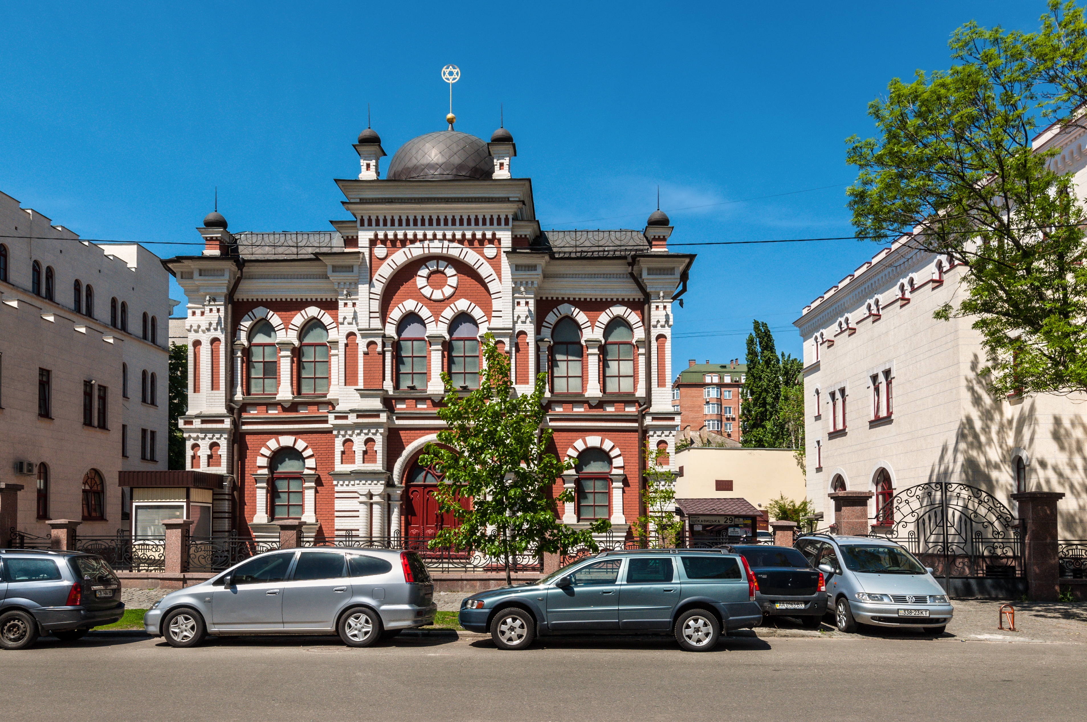 Kyiv, Ukraine - May 10, 2015: The Rosenberg Synagogue - the main synagogue of Ukraine located in the historic district called Podil (Podol), Kyiv downtown.